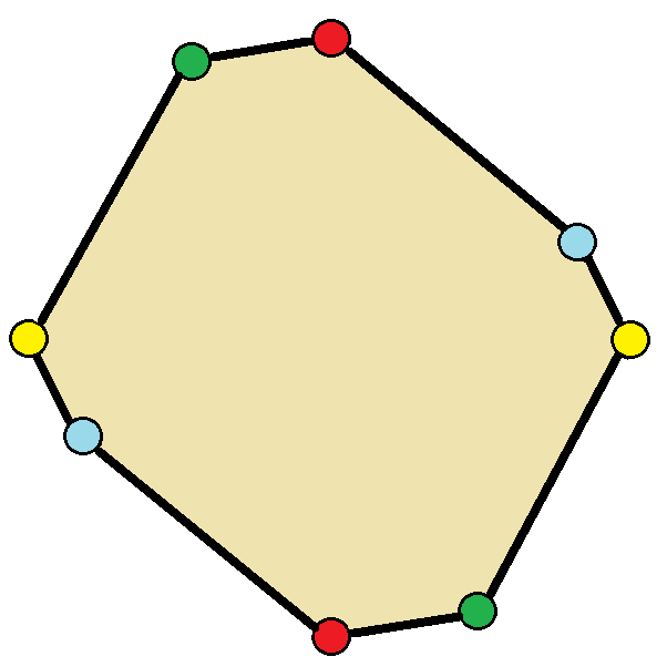 Octagon, symmetry example